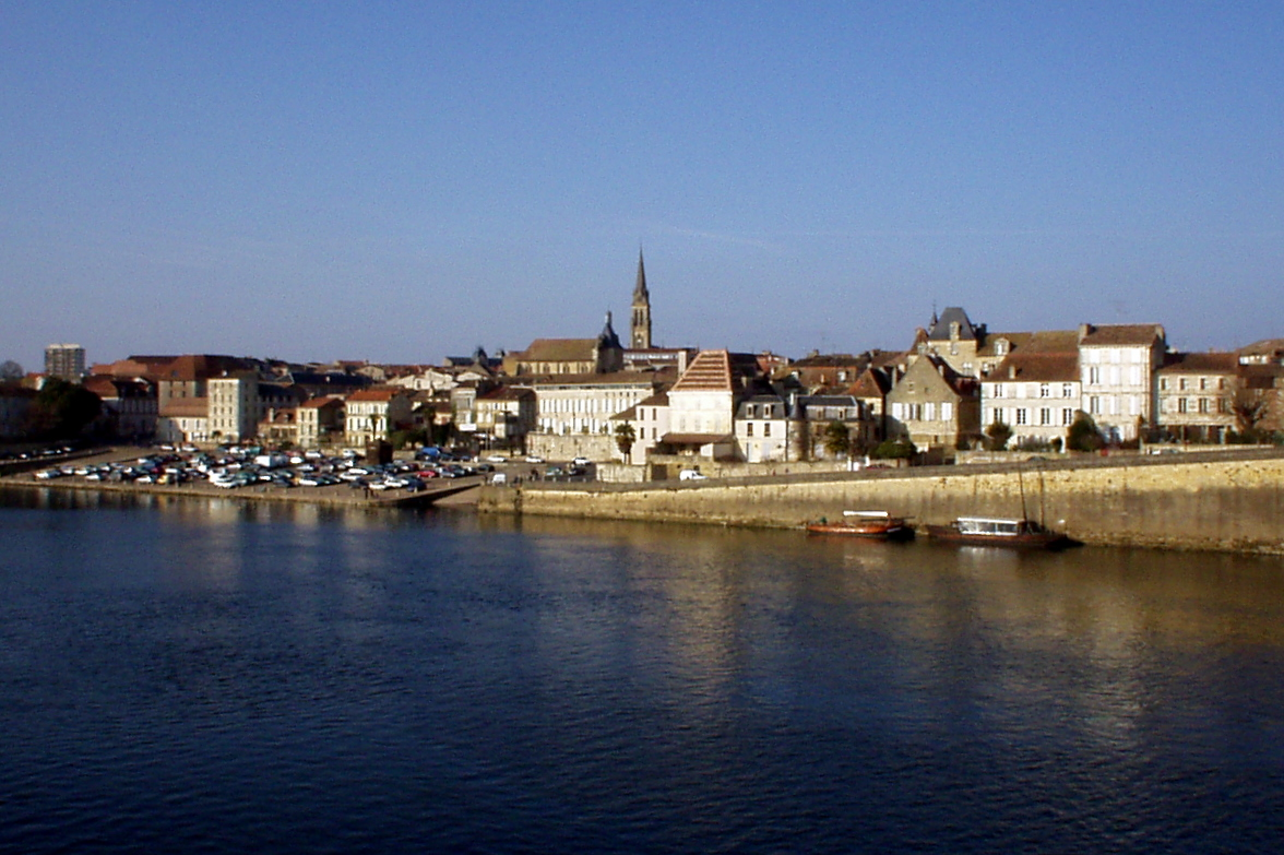 Bergerac, France as seen overlooking the Dordogne river.